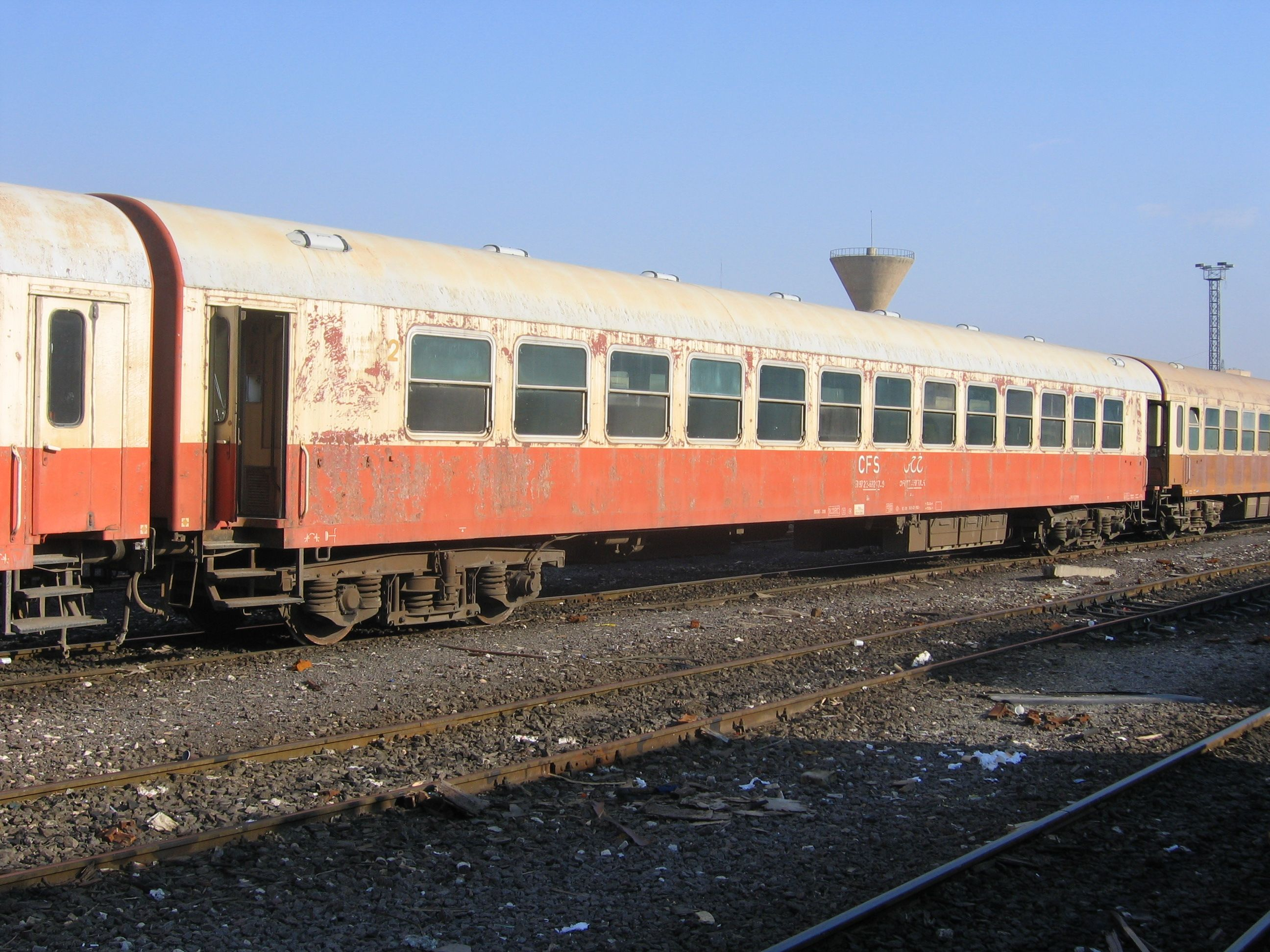 Passenger carriage of Syrian railway used for regional traffic. Second hand use of former Romania Railways (CFS) 2nd class carriage.